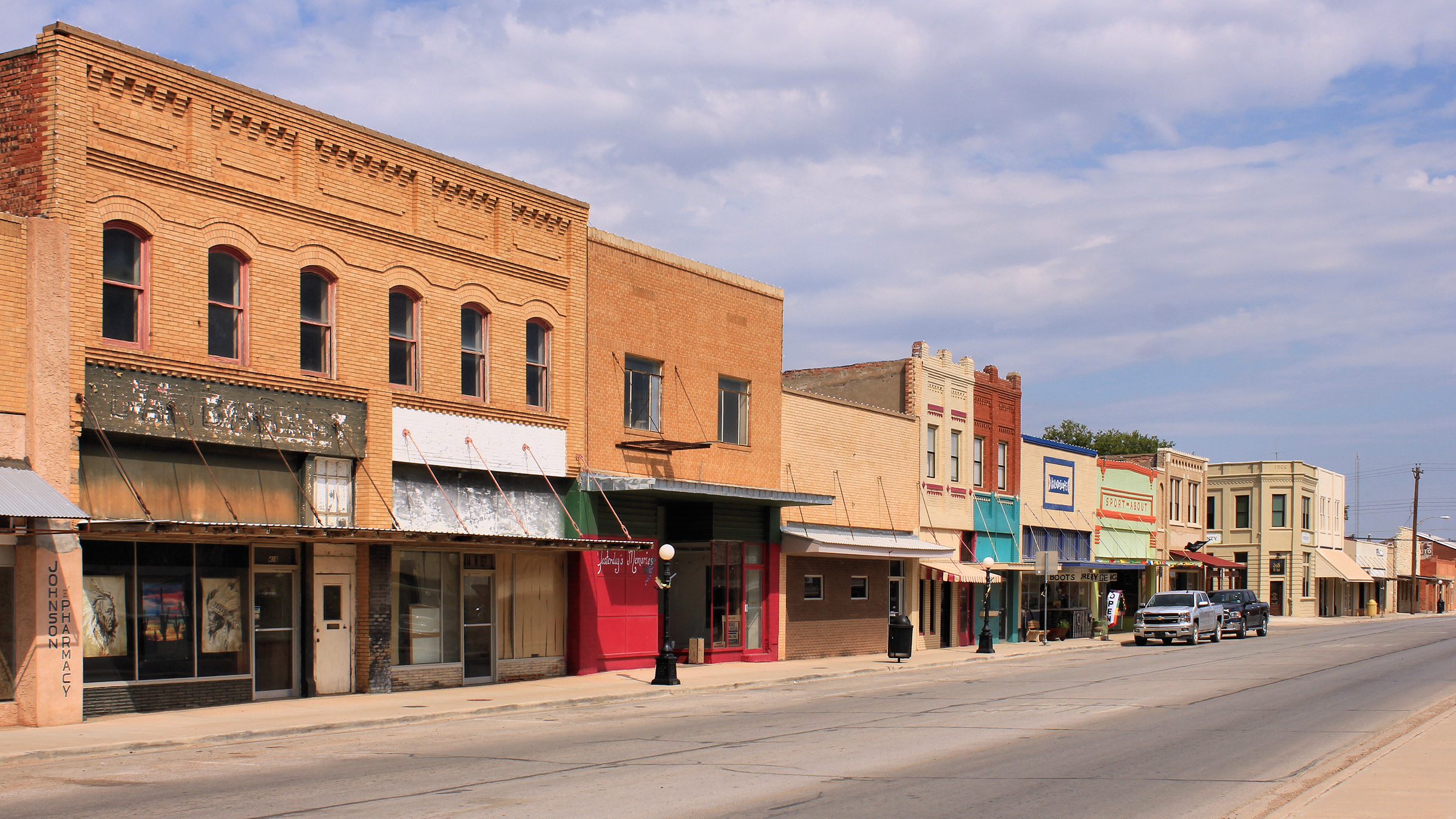 Downtown Haskell, Texas in 2015